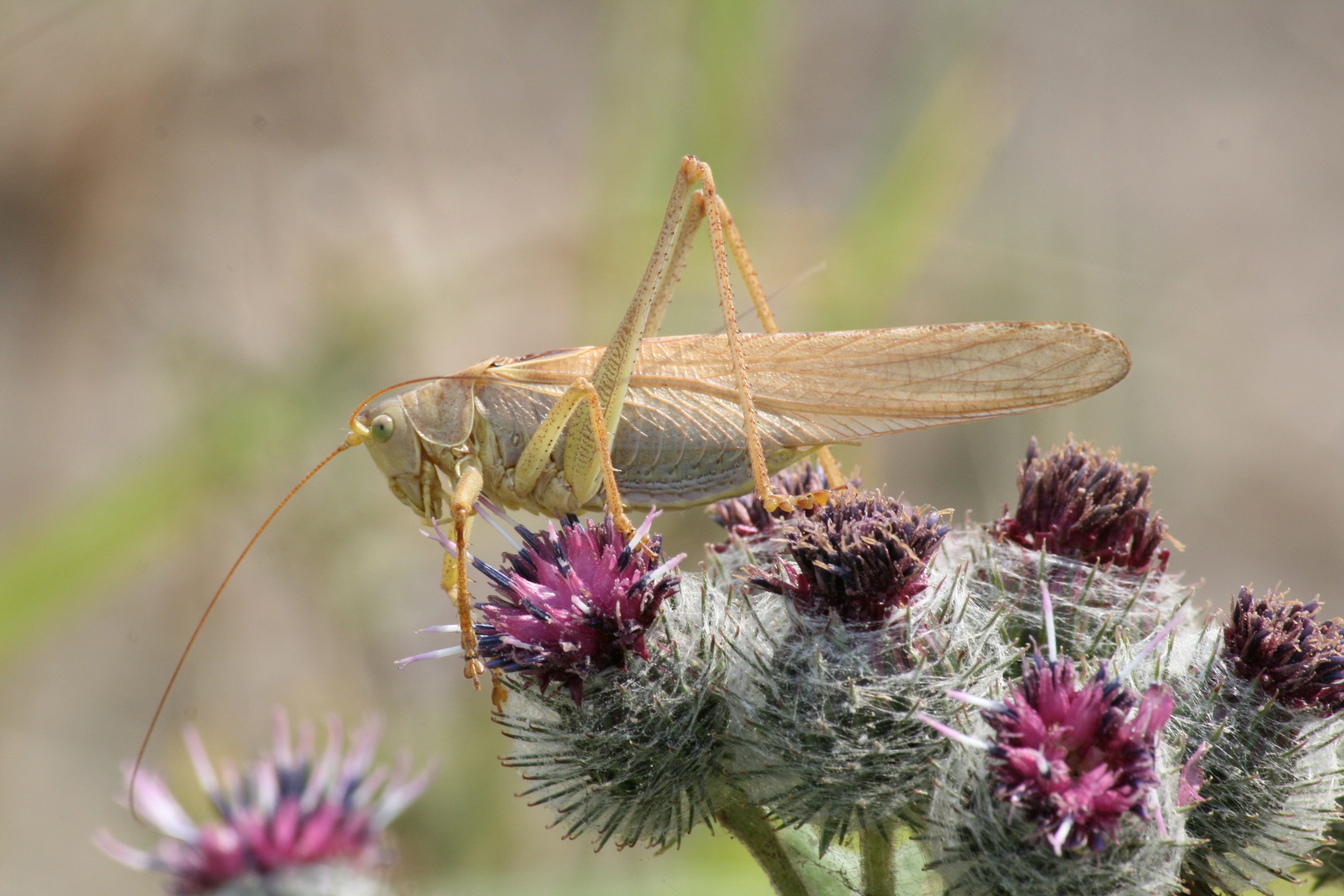 male Great Green Bush Cricket (Tettigonia viridissima) sitting on a Downy Burdock (Arctium tomentosum) next to a country lane in Germany